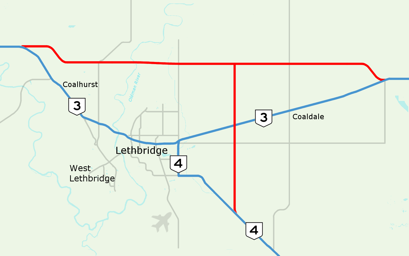 Created with Open Street Map